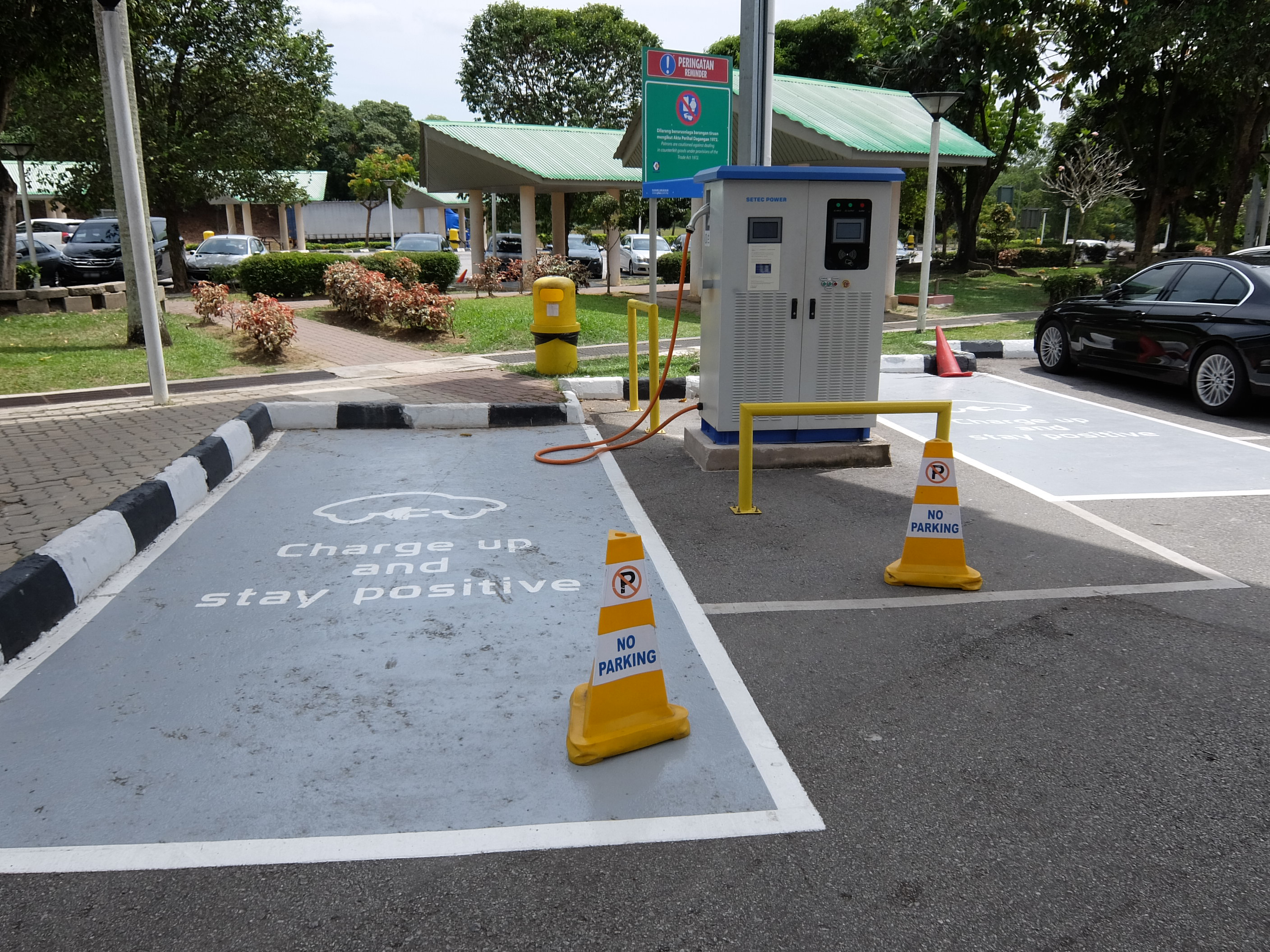 R&R Ayer Keroh (Southbound), Ayer Keroh, Central Melaka, Melaka, Malaysia